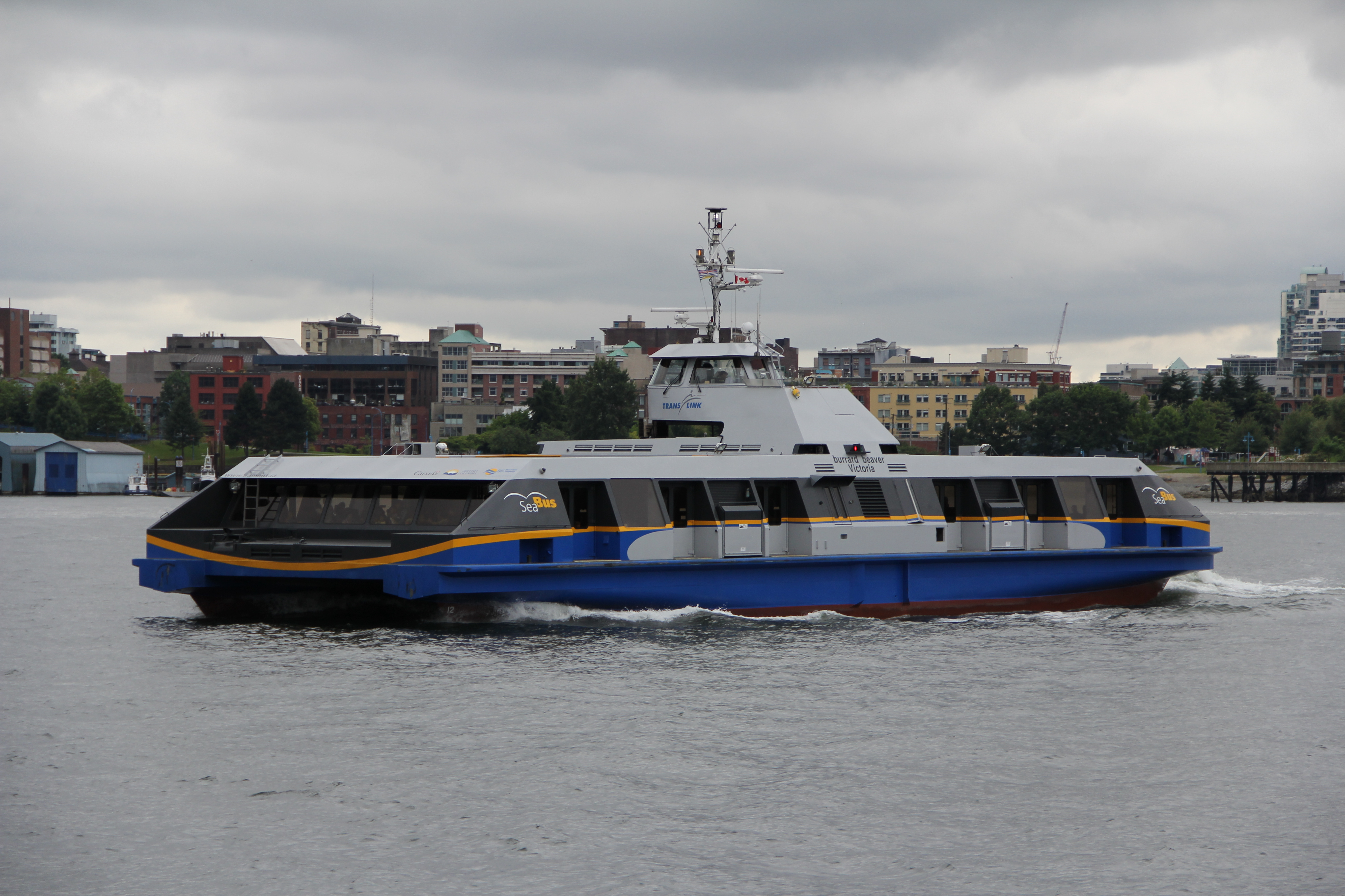 "Burrard Beaver SeaBus" crossing Burrard Inlet.